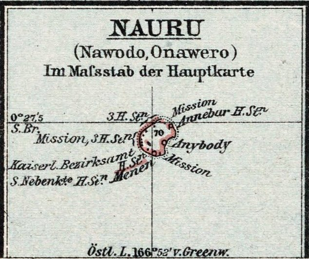 map of the Marshall Islands as a German Protectorate in 1897, with several insets of the larger individual atolls